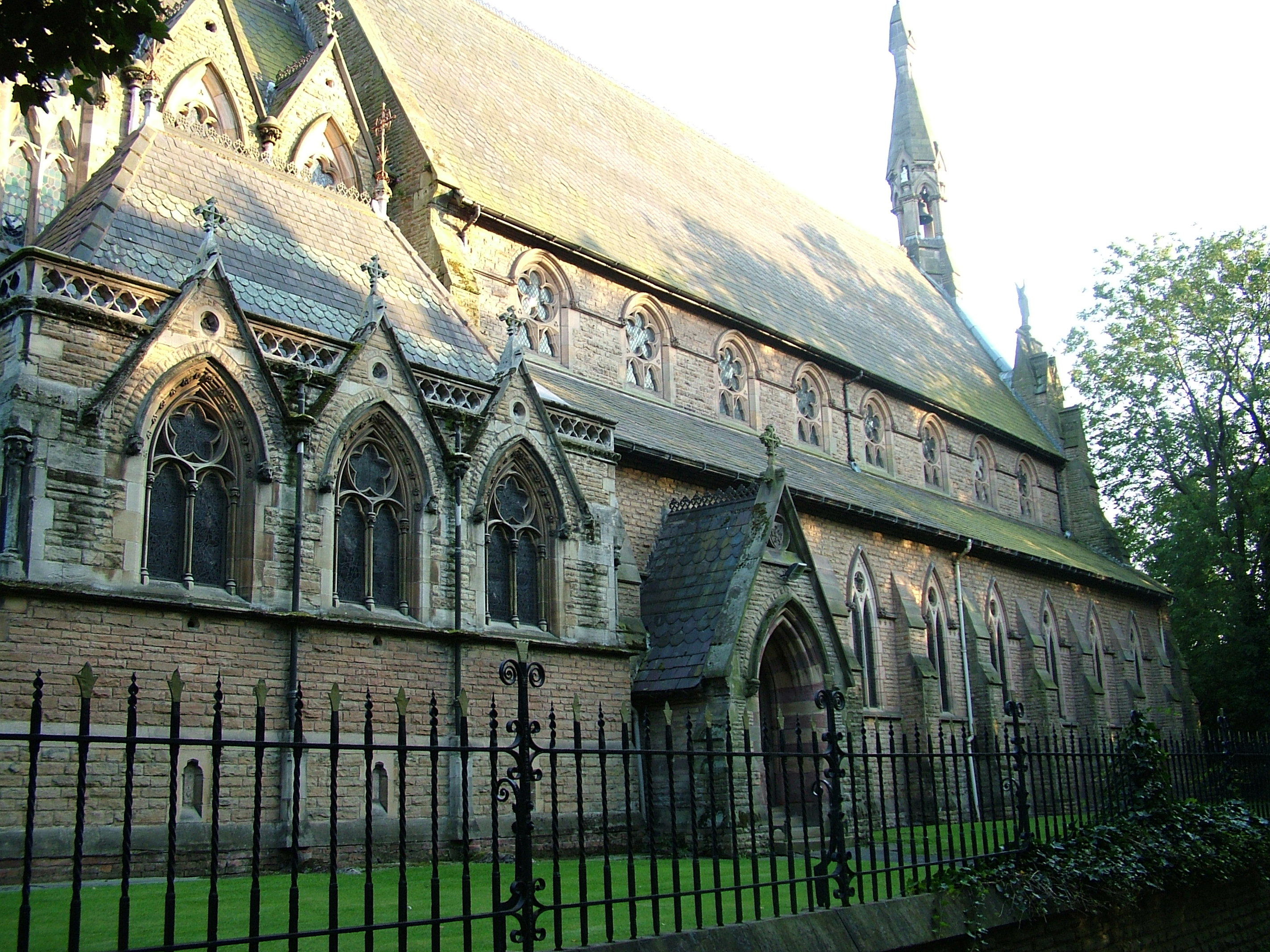 Roman Catholic church of All Saints, Redclyffe Road, Trafford, Greater Manchester